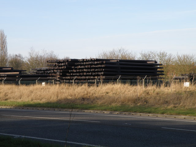 Telegraph Poles, Boston Telegraph poles stacked for drying after being treated with a preservative at Calders & Grandidge, Boston.